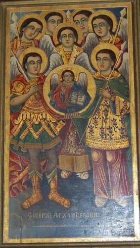 Konstantin Yakovlev Icon from Draganac Monastery